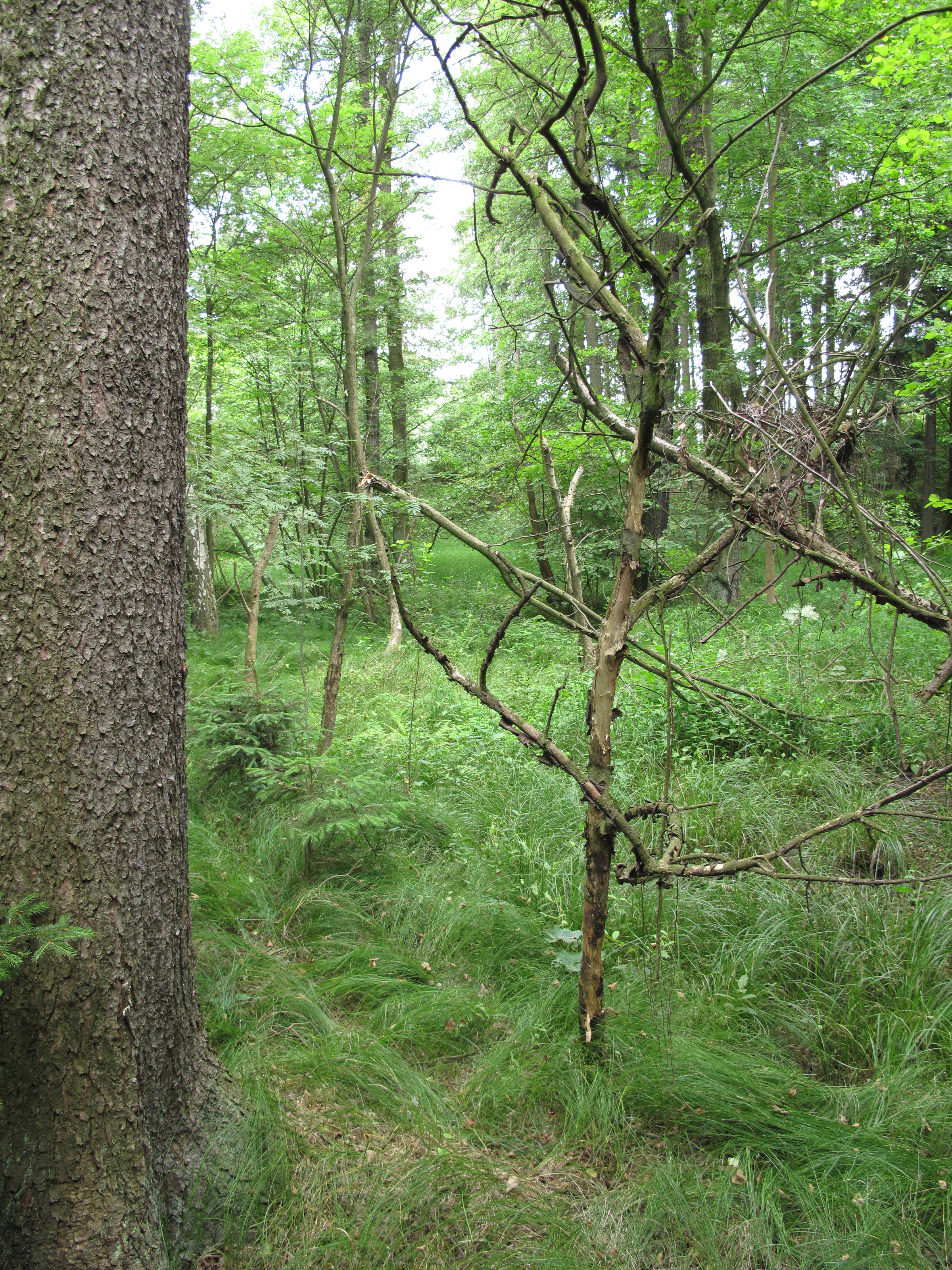 View into natural monument Niva u Volduch, Rokycany District, Czech Republic.